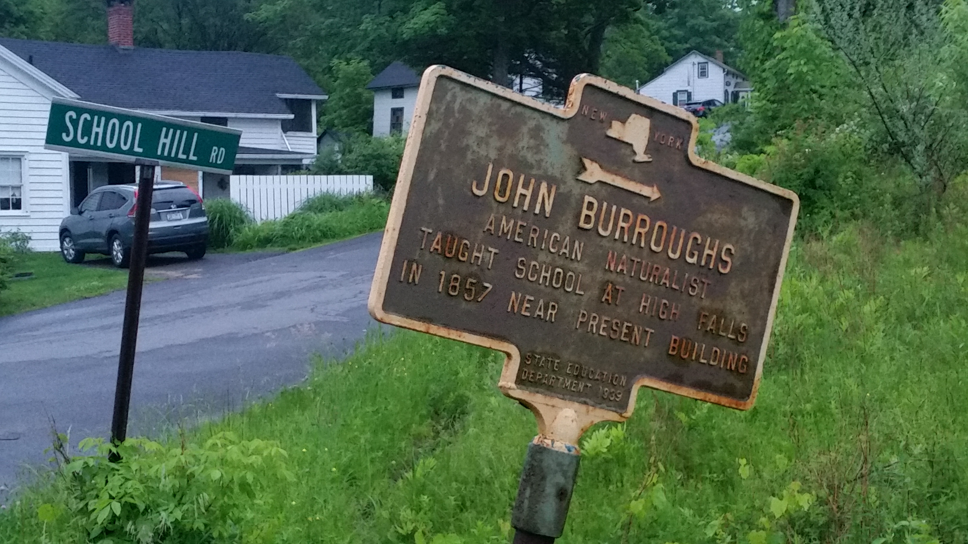 NY State historical marker for the school where John Burroughs taught in High Falls, New York